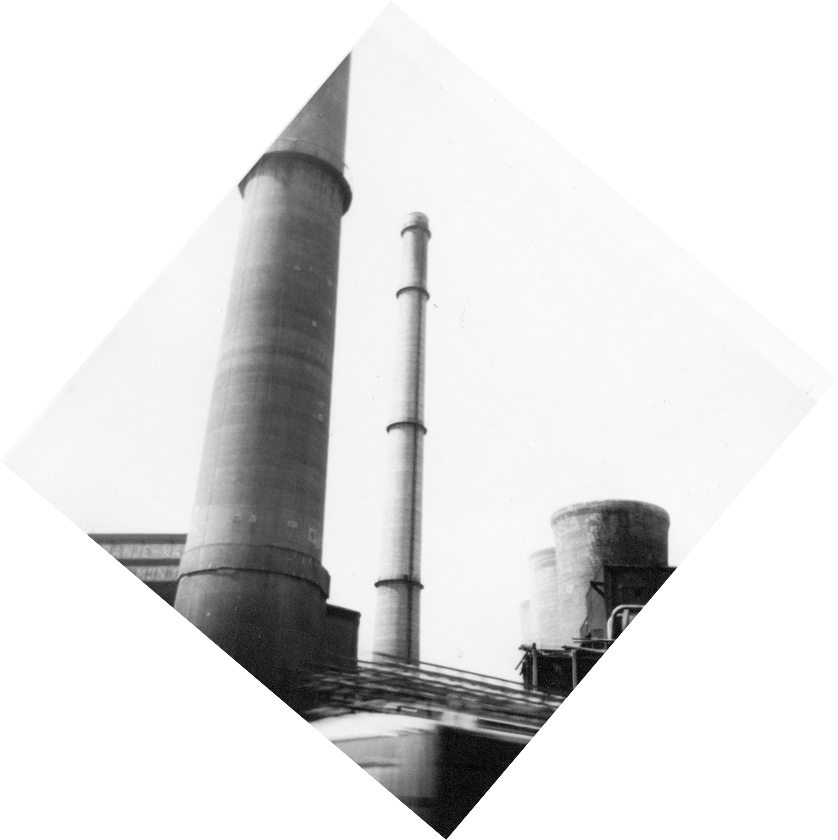 Lange Jan (left) and Lange Lies (right): Two chimneys of Oranje Nassau Mine I, Heerlen, The Netherlands